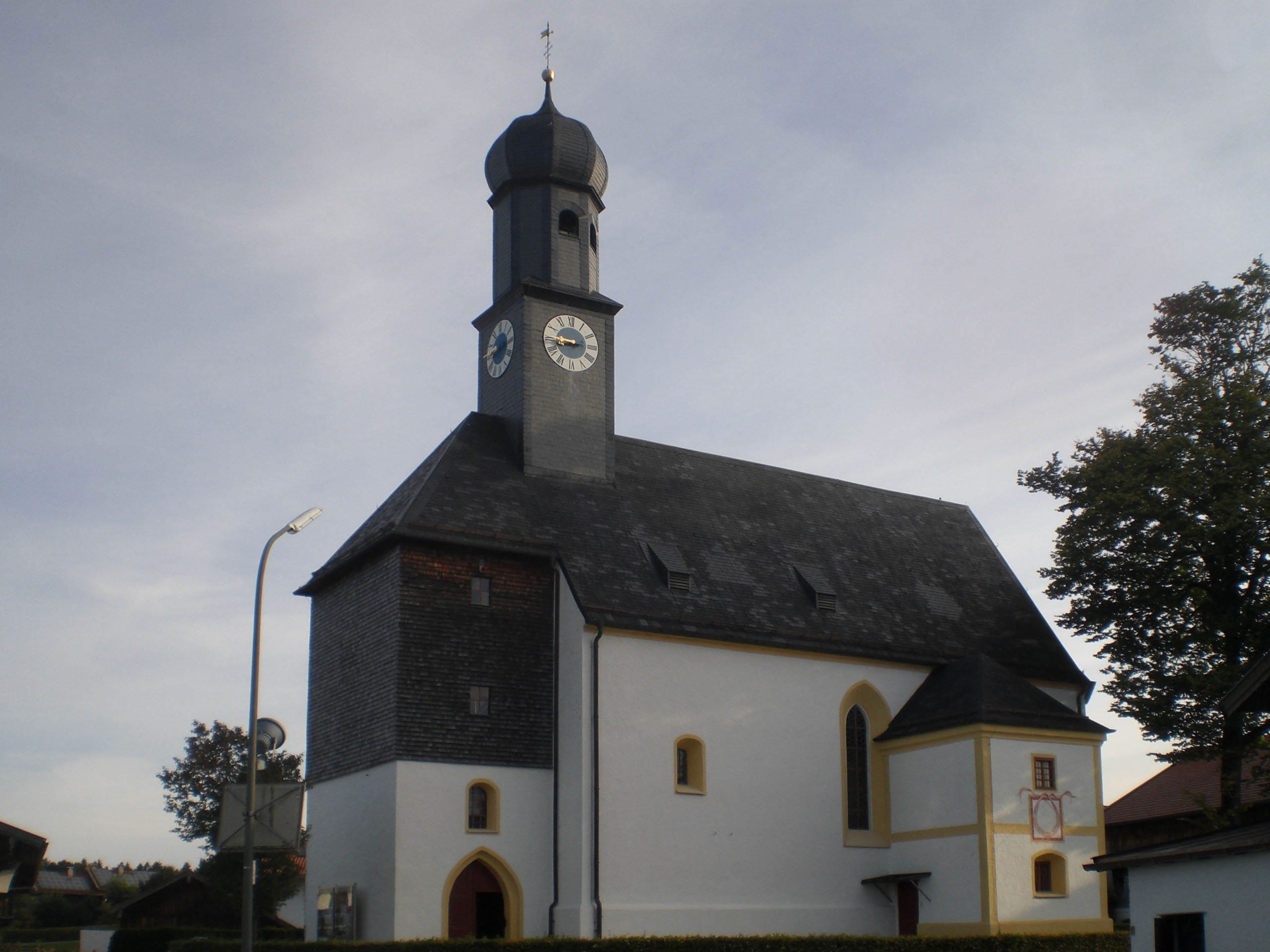 Catholic parish church of Schaftlach, upper Bavaria, late Gothic, 1476 completed by Alex Gugler, sacristy changed 1640, Tower 1683.